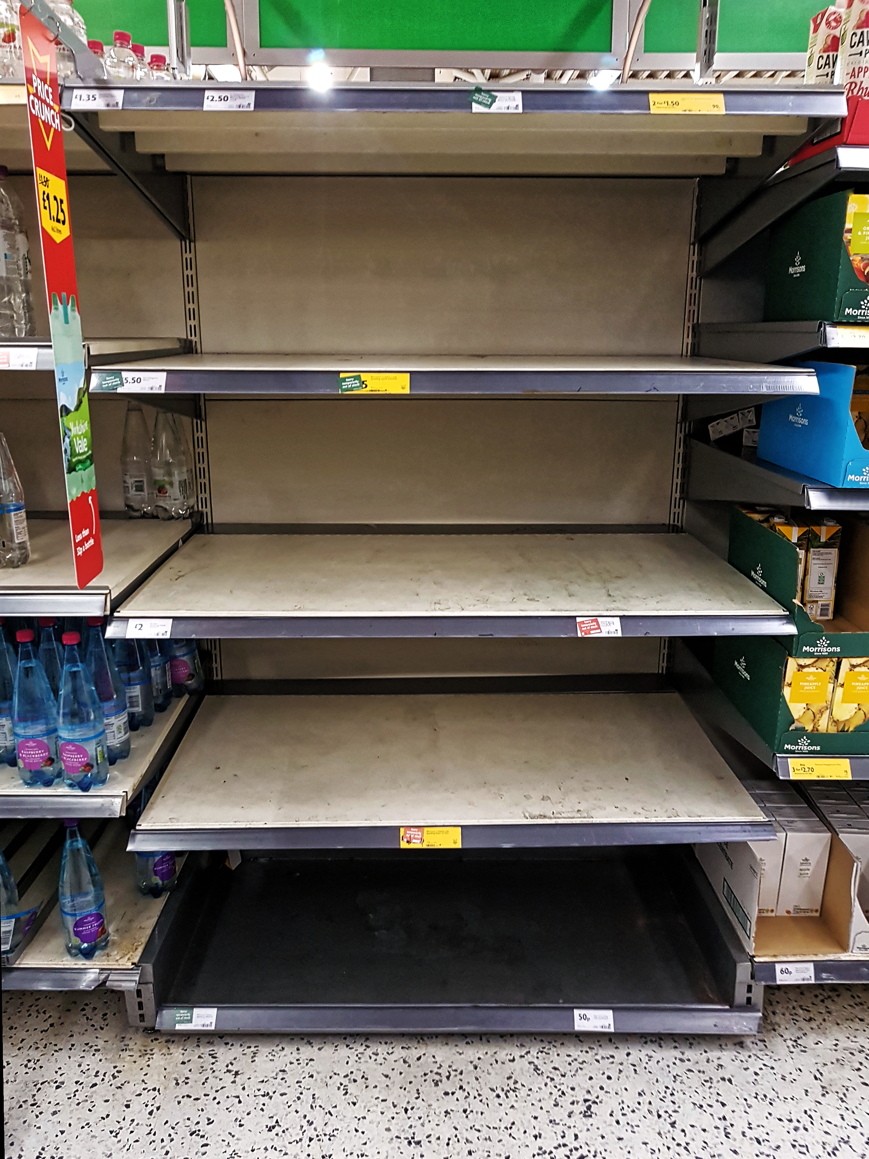 Covid-19 Coronavirus empty shelves at Morrisons supermarket in Chingford, London, England.Camera: Samsung Galaxy S7 Edge.Software: JPEG file lens-corrected, optimized and converted with DxO OpticsPro 11 Elite, and further optimized with Adobe Photoshop CS2.